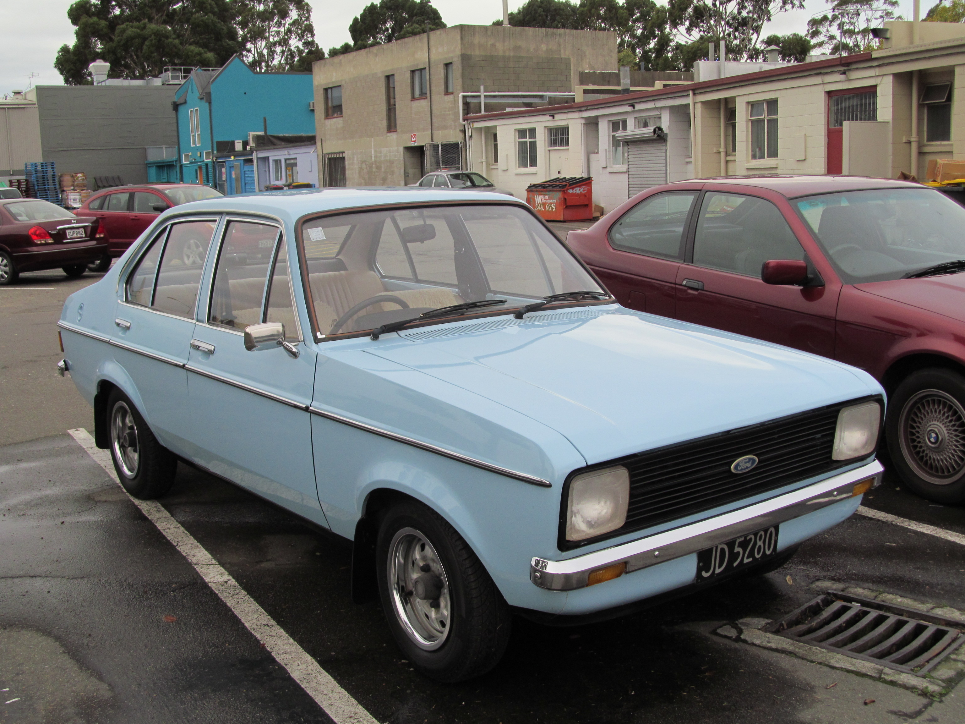 I couldn't believe my eyes when this spotless Mk2 trundled into this car park while I was sitting in the car waiting for family. It was piloted by a elderly man and given its immaculate condition I had to follow it. It wouldn't surprise me if it's a one-owner car.